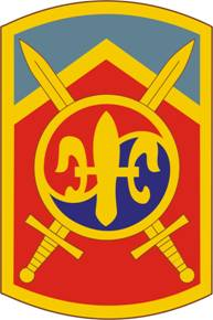 501st Sustainment Brigade Shoulder Sleeve Insignia from